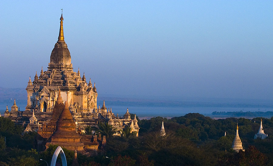 The 12th-century Gawdawpalin Pahto (Temple) with Ayeyarwady (Irrawady) River on its background, Bagan, Myanmar (Burma).